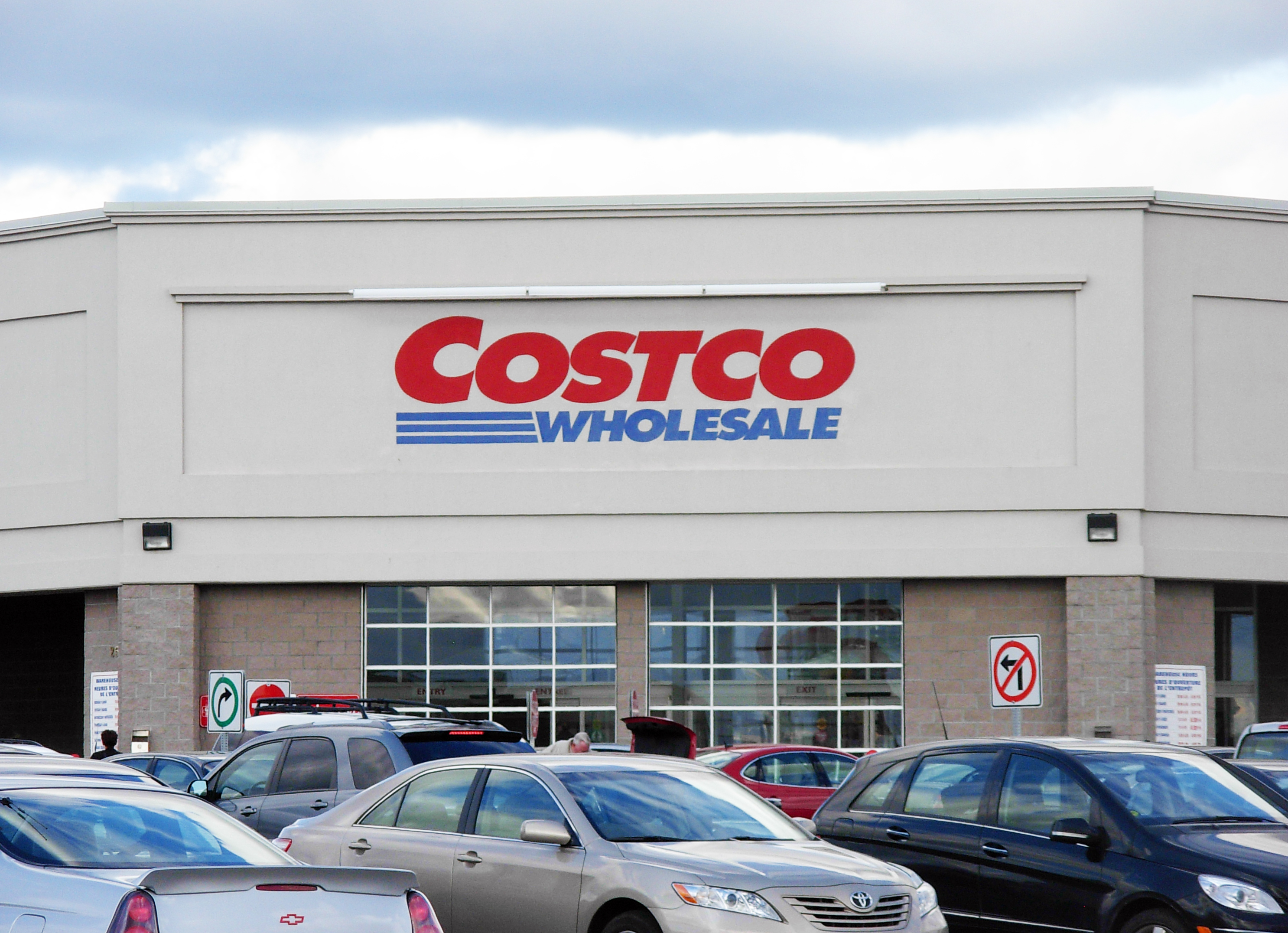 Costco in Moncton, New Brunswick